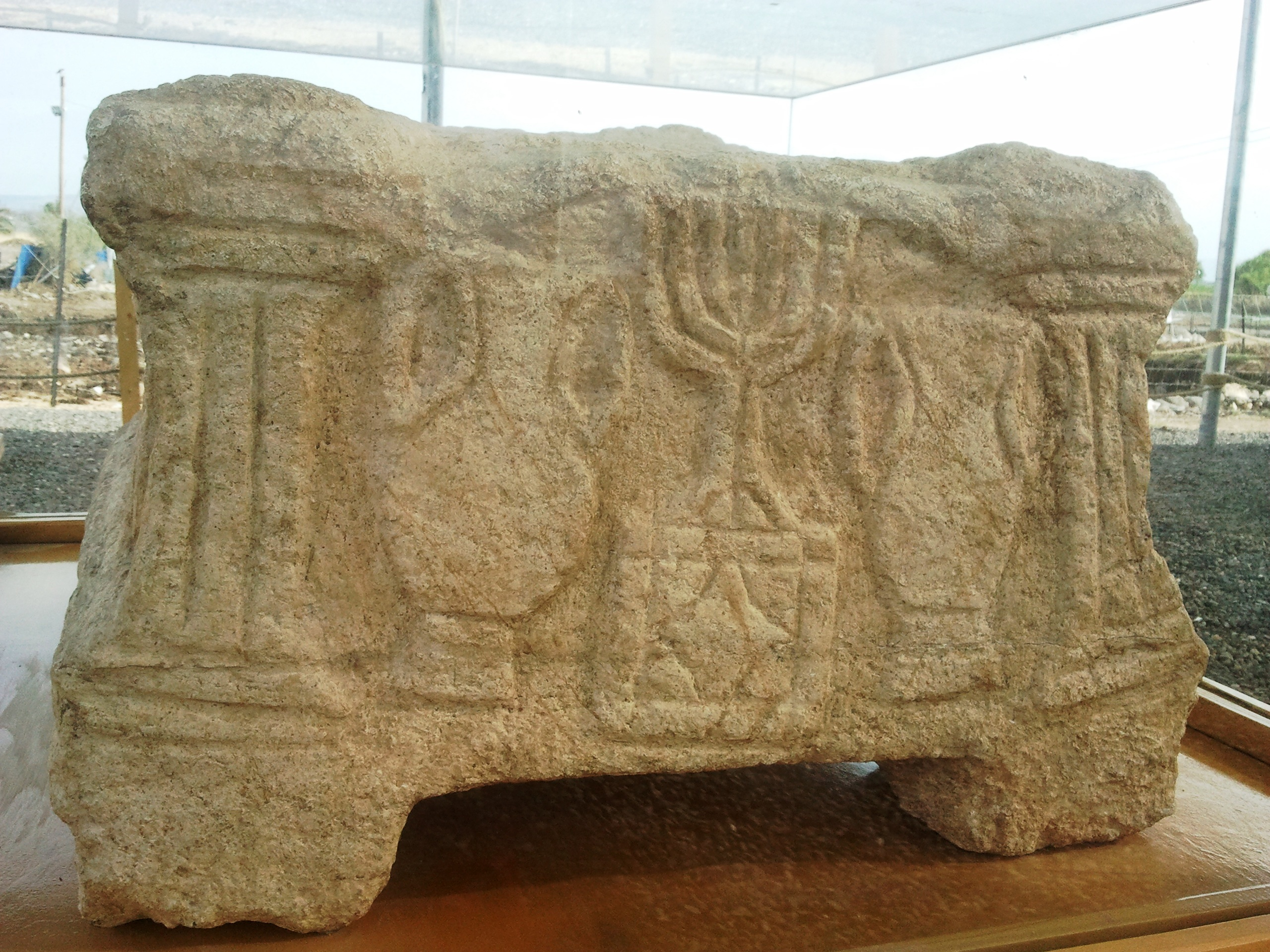 Magdala is the name of ancient town located on the shore of the Sea of Galilee